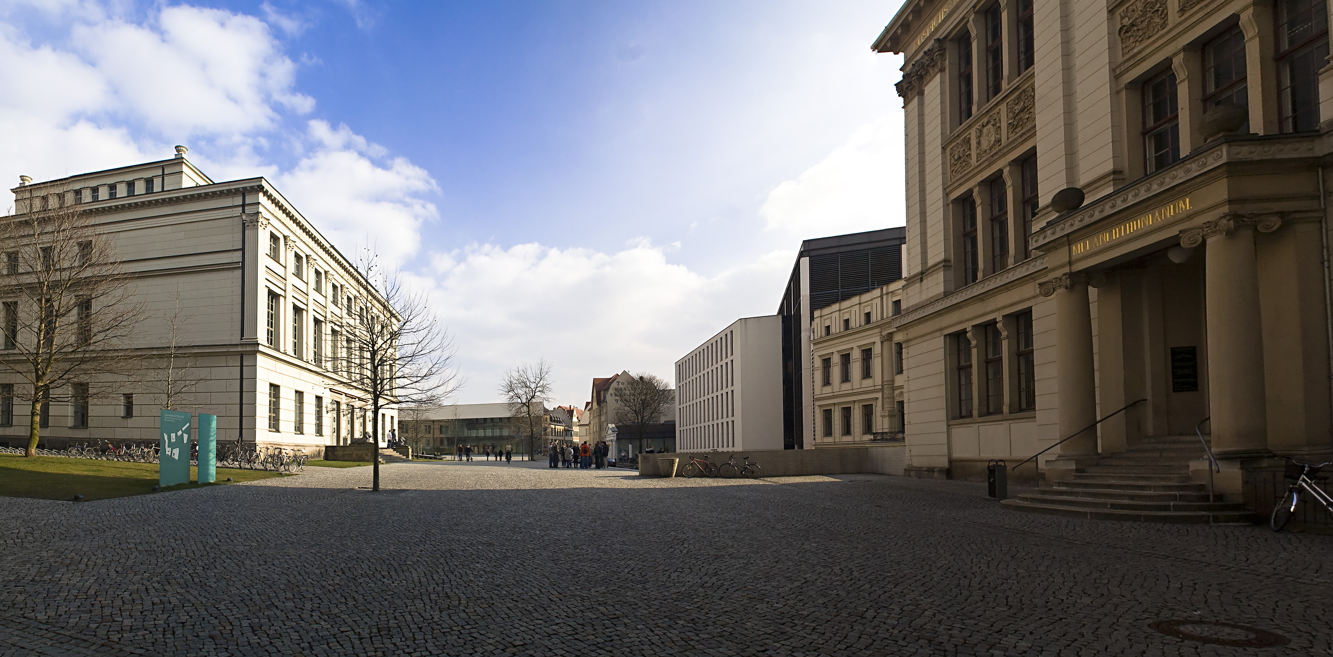 University Square in Halle, Saxony-Anhalt.